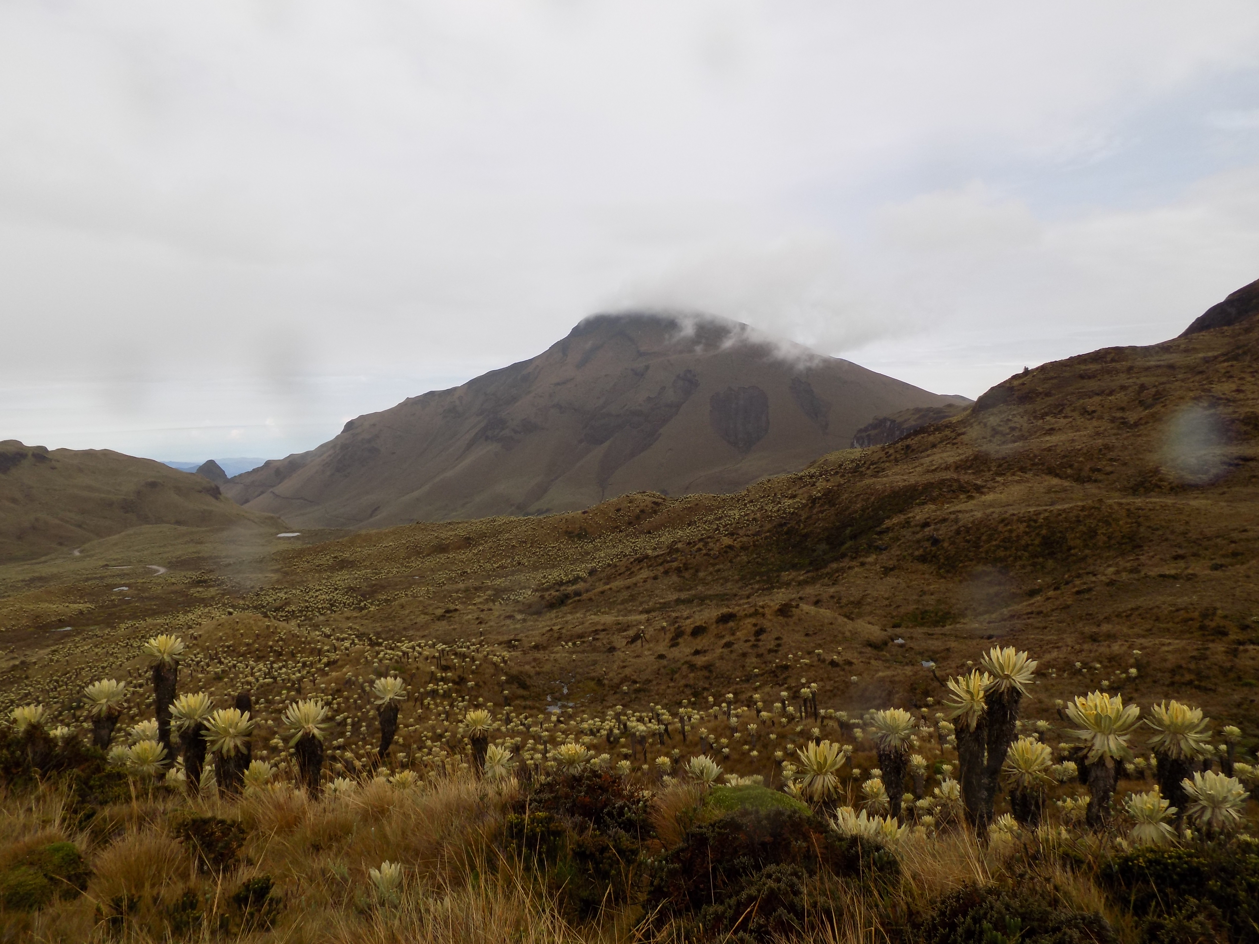 IT REPRESENTS THE PRODUCTION OF WATER Esta fotografía fue tomada en un área protegida de Colombia (Error: Falta código RUNAP).